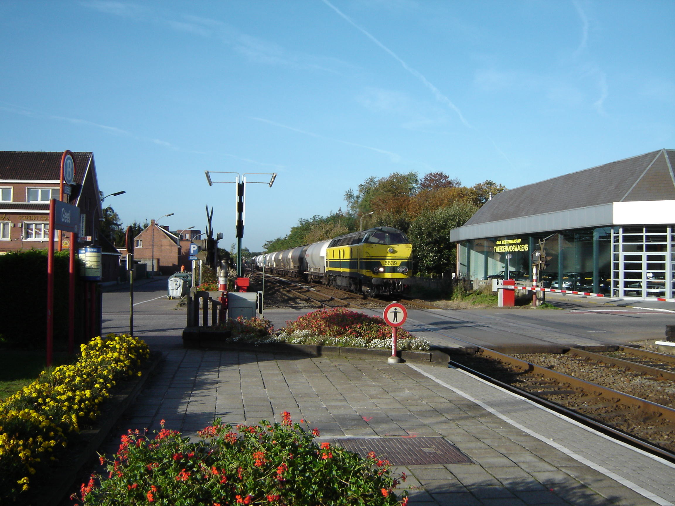 Train station in Geel taken on October 22, 2004.